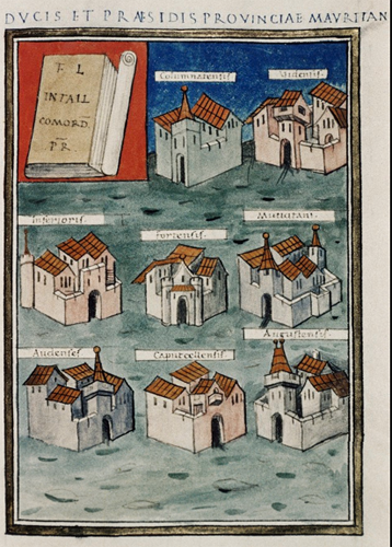 Notitia Dignitatum: Frontpiece chapter of Dux et praeses provinciae Mauritaniae et Caesariensis, taken from the Bodleian manuscript (1436). The stations depicted are: Columnatensis, Vidensis,Inferioris, Fortensis, Muticitani, Audiensis, Caput cellensis, Augustensis.